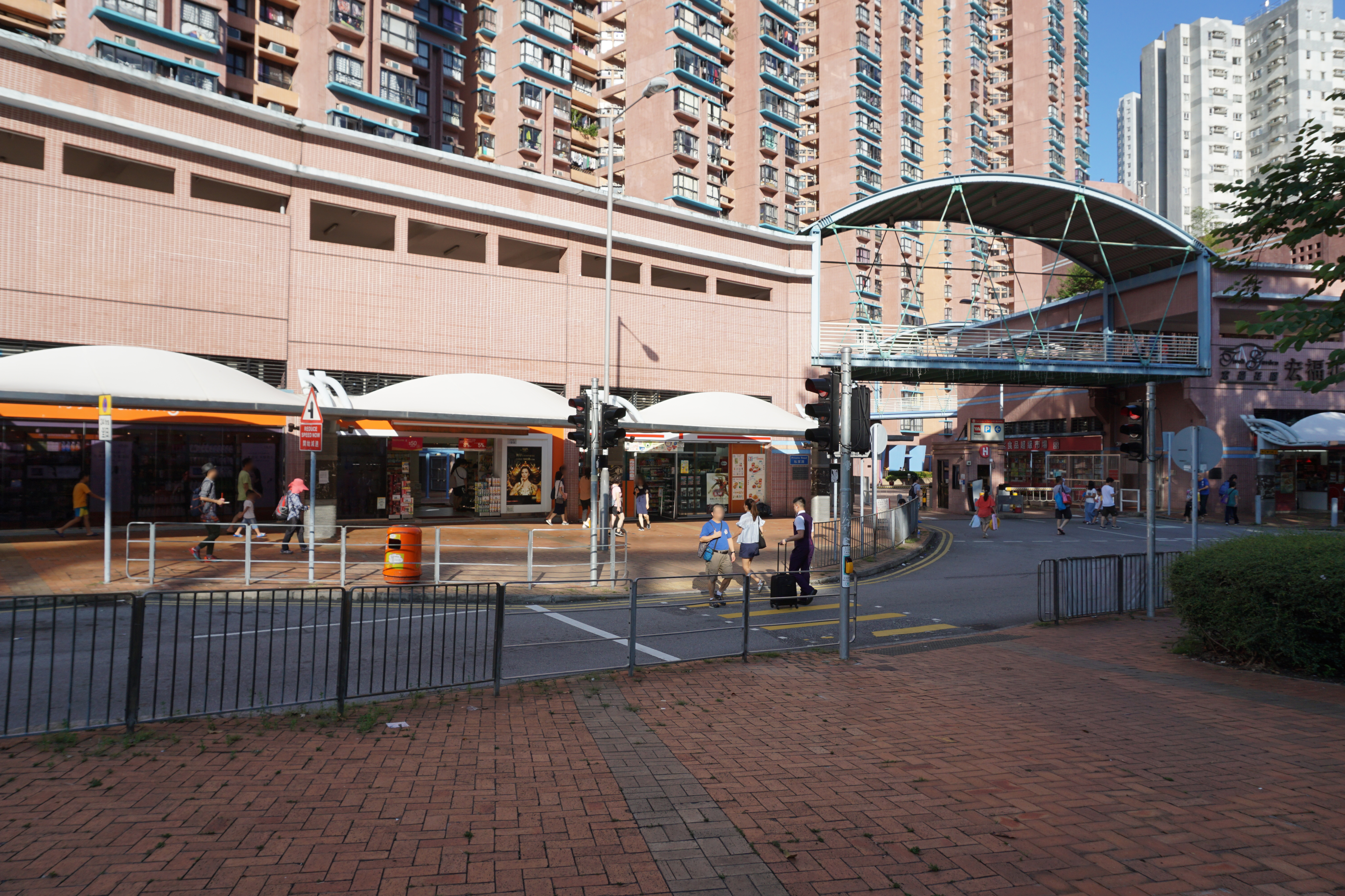 Tivoli Garden in Tsing Yi, Hong Kong.